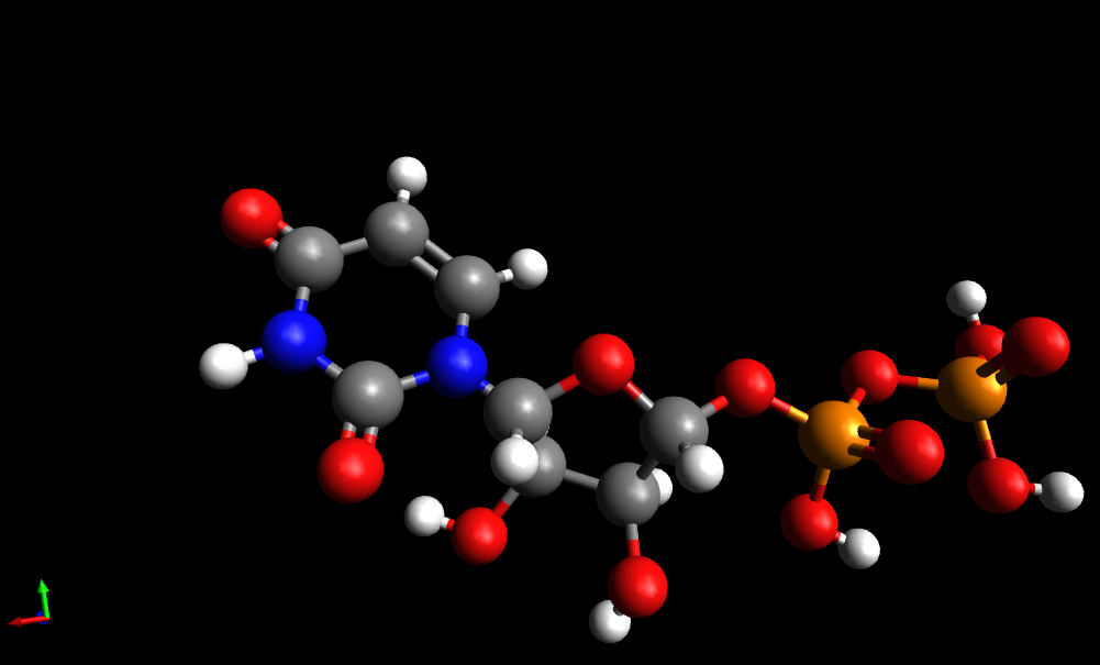 Nucleotide